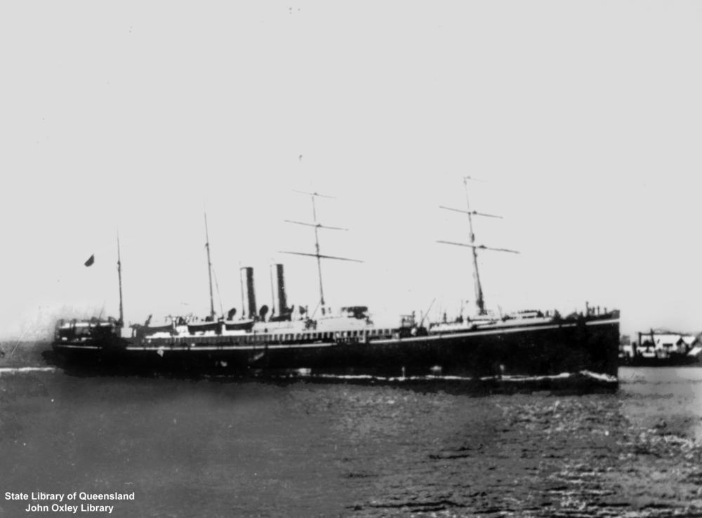 P&O 6,610 GRT passenger liner Arcadia